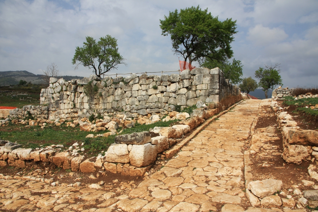 Recent Excavations at Norba in spring 2012